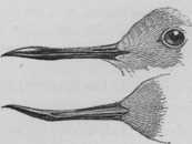 General characterisitics of wrybill plover bill.